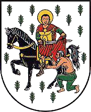 Coat of arms of Kallmerode